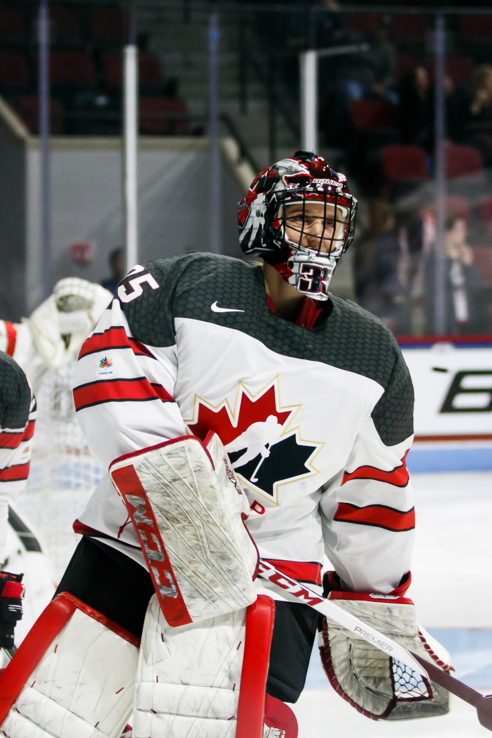 Ann-Renee Desbiens playing for Team Canada in 2017